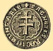 Agnes of Glogau